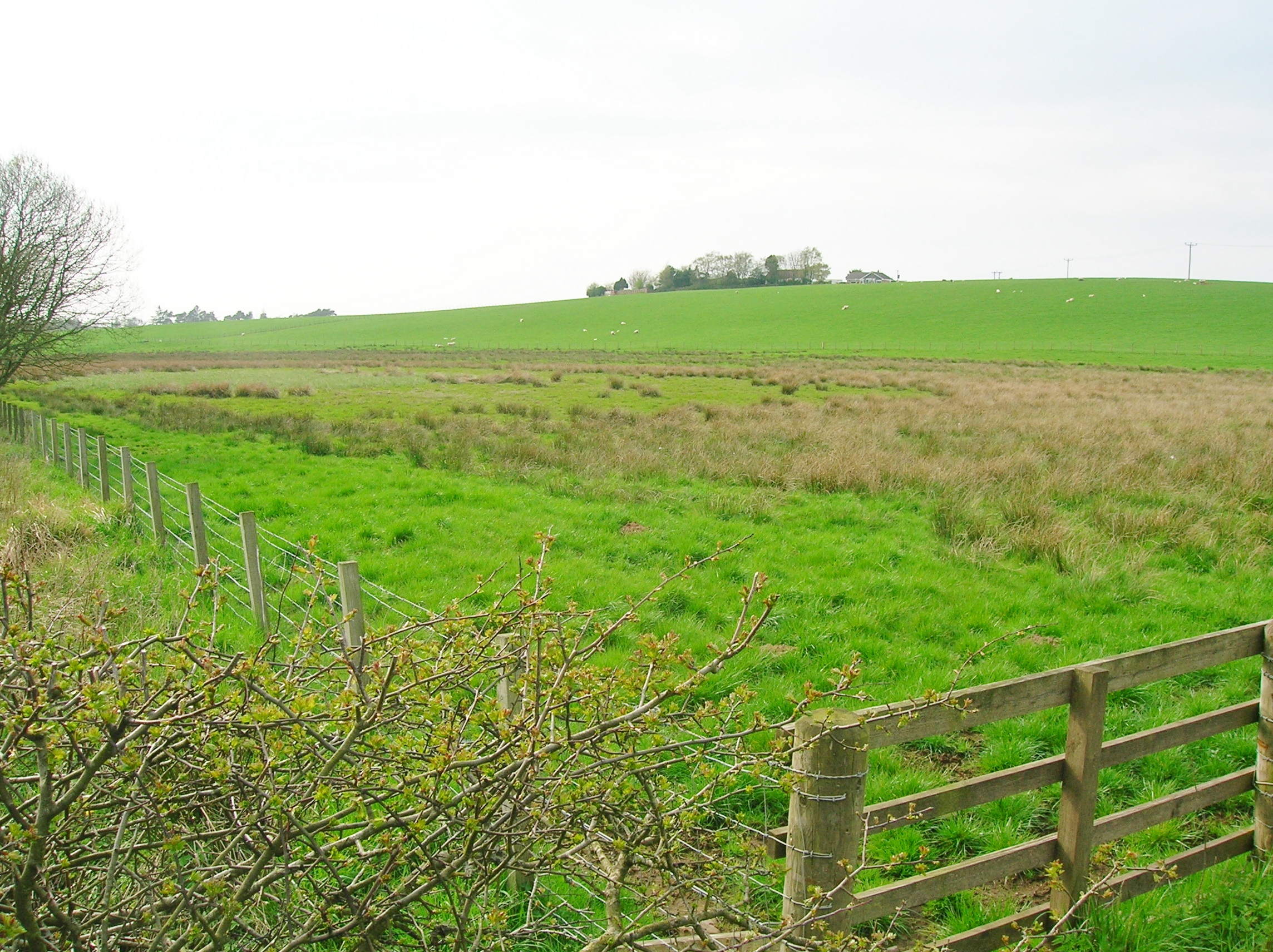 The Loch of Trabboch looking towards Loudonston Farm, East Ayrshire, Scotland.